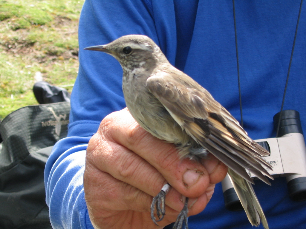 Bar-winged cinclodes (Cinclodes fuscus) caught and banded at Cerro Robalo, Isla Navarino, Chile